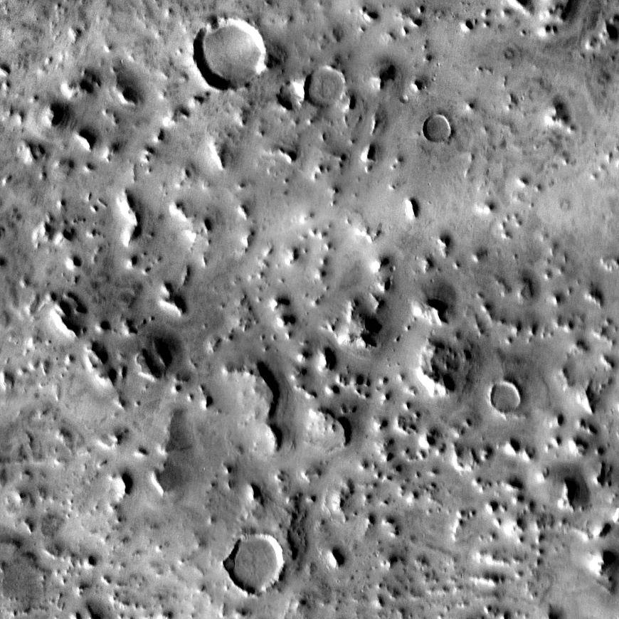 Part of Acidalia Colles on Mars. Mosaic of daytime infrared images from the Thermal Emission Imaging System (THEMIS) instrument onboard 2001 Mars Odyssey spacecraft. Image size is 100×100 km, north is approximately up.